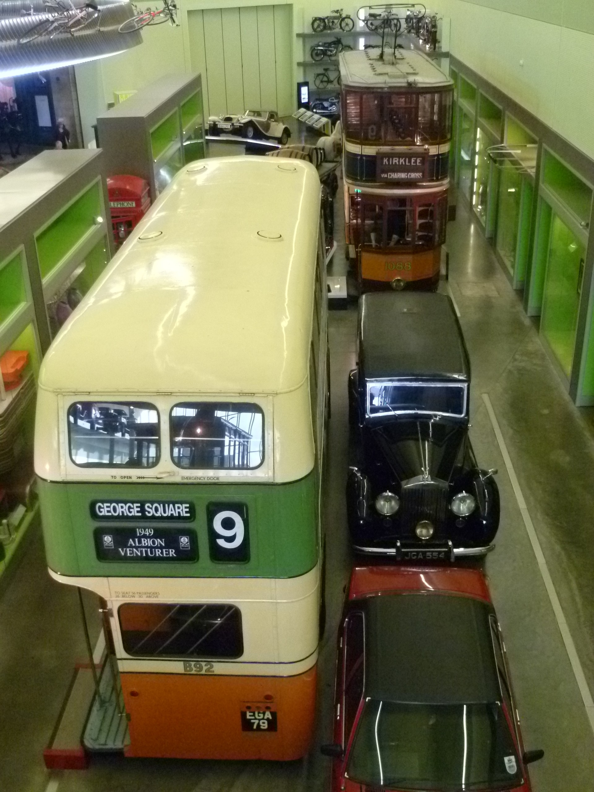 Exhibits in Glasgow's Riverside Museum